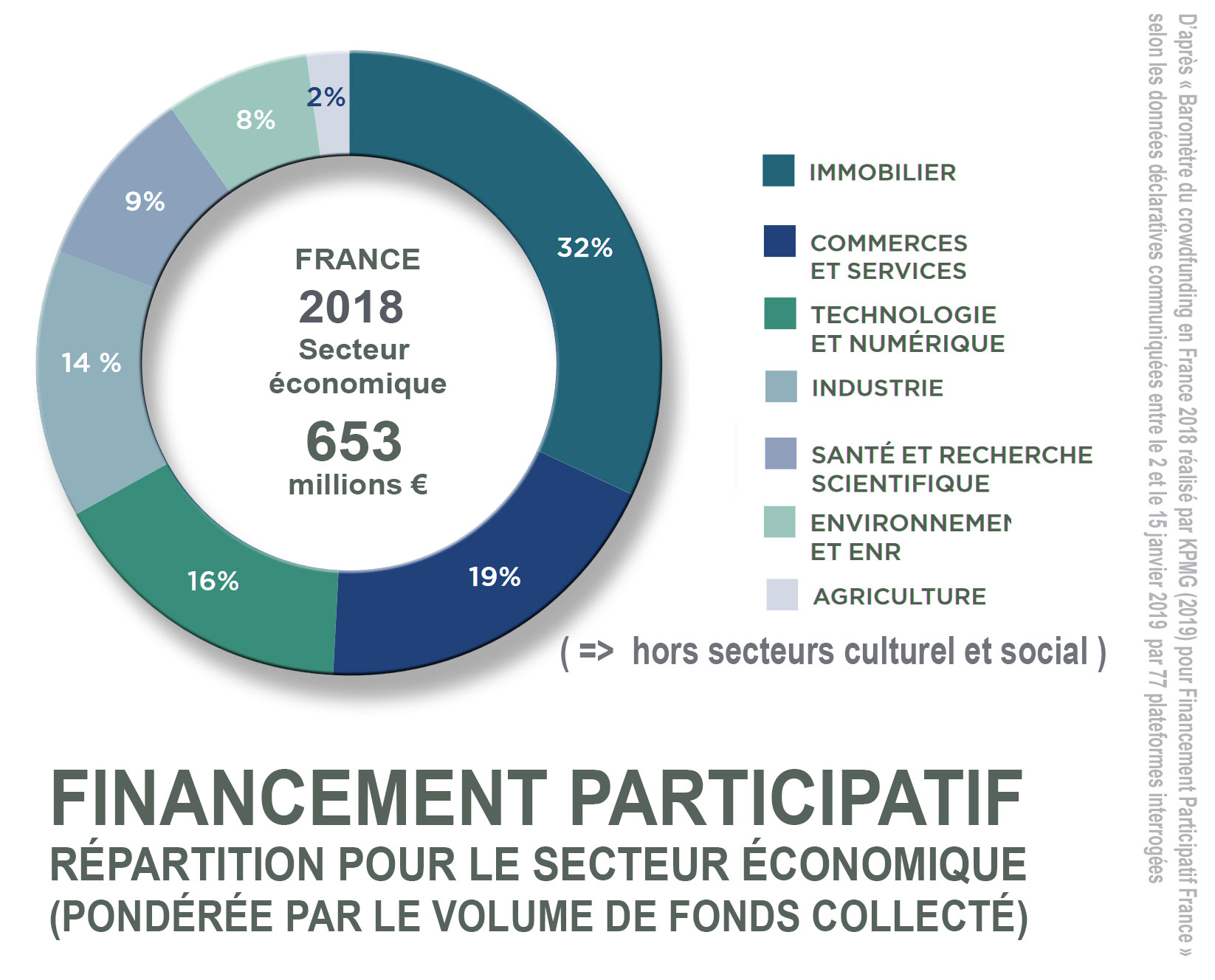 money acquired by crowdfunding (financement participatif) in France, just for the economic sector (outside the social sector (28 million euros in 2018) and the cultural sector (44 million euros in 2018). This chart is made from a "barometer" based on the reported data provided to KPMG from 2 to 15 January 2019 by 77 crowdfunding platforms surveyed in France.